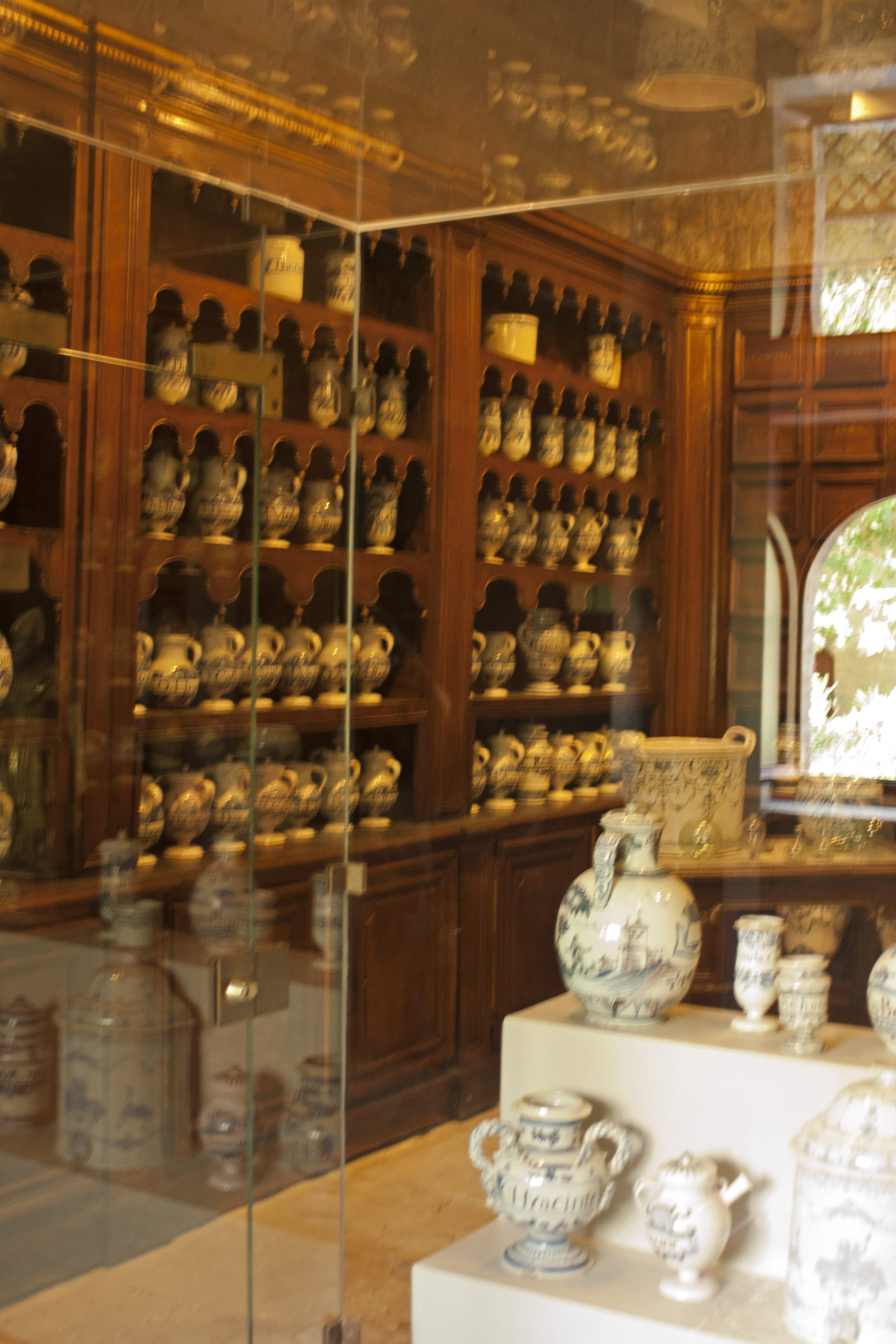 Collection of 207 pharmacy jars of the former Hotel-Dieu of the Sisters of Charity.